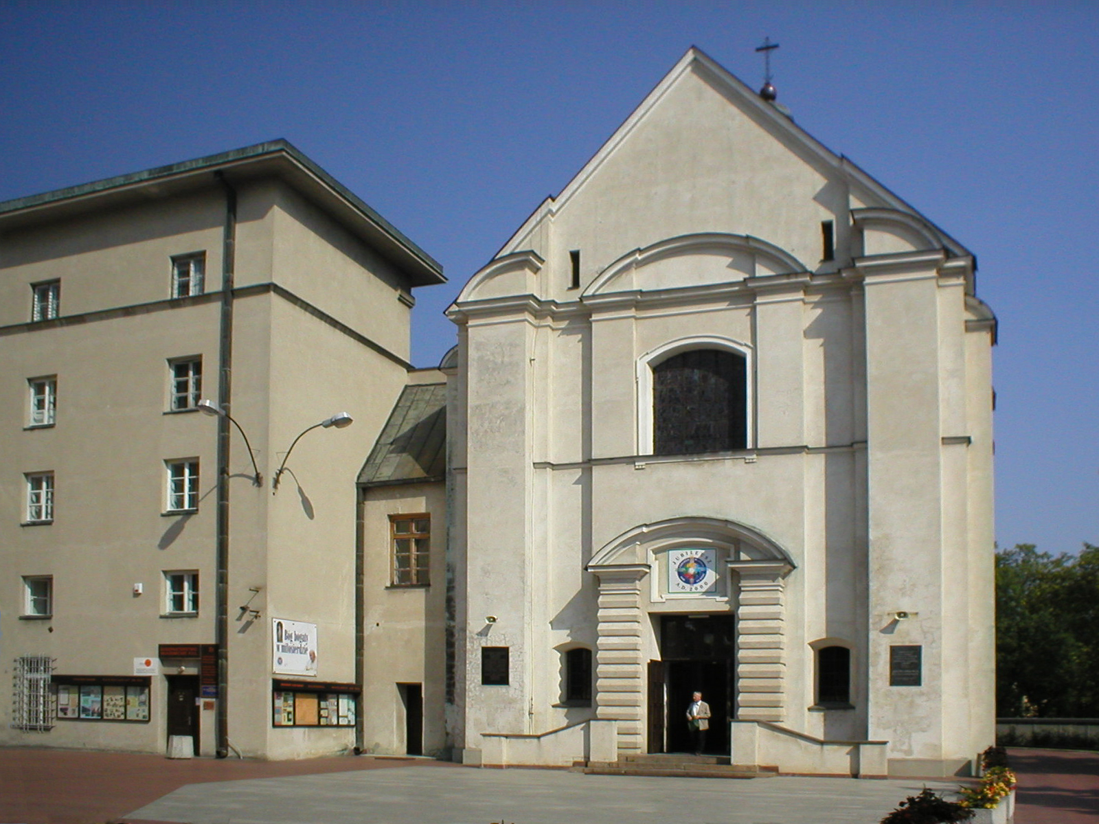 Catholic University of Lublin - university church (Lublin, Poland.